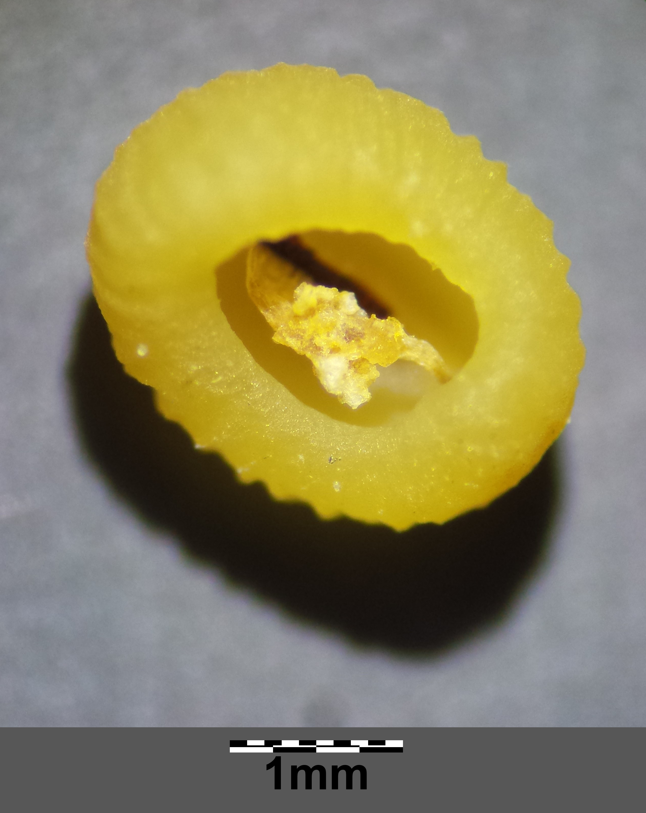 Seed Taxonym: Veronica hederifolia s. str. ss Fischer et al. EfÖLS 2008 ISBN 978-3-85474-187-9 Location: near Niederhollabrunn, district Korneuburg, Lower Austria - ca. 350 m a.s.l. (leg.: 2016-05-15) Habitat: border of a field